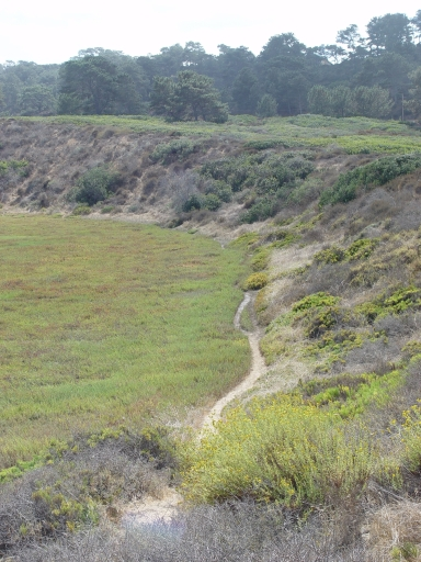 Los Penasquitos Lagoon Marsh Trail, skirting the wet area